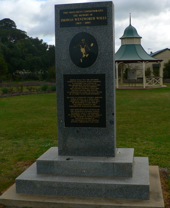 Tom Wills memorial monument and pavillion in Moyston, Victoria